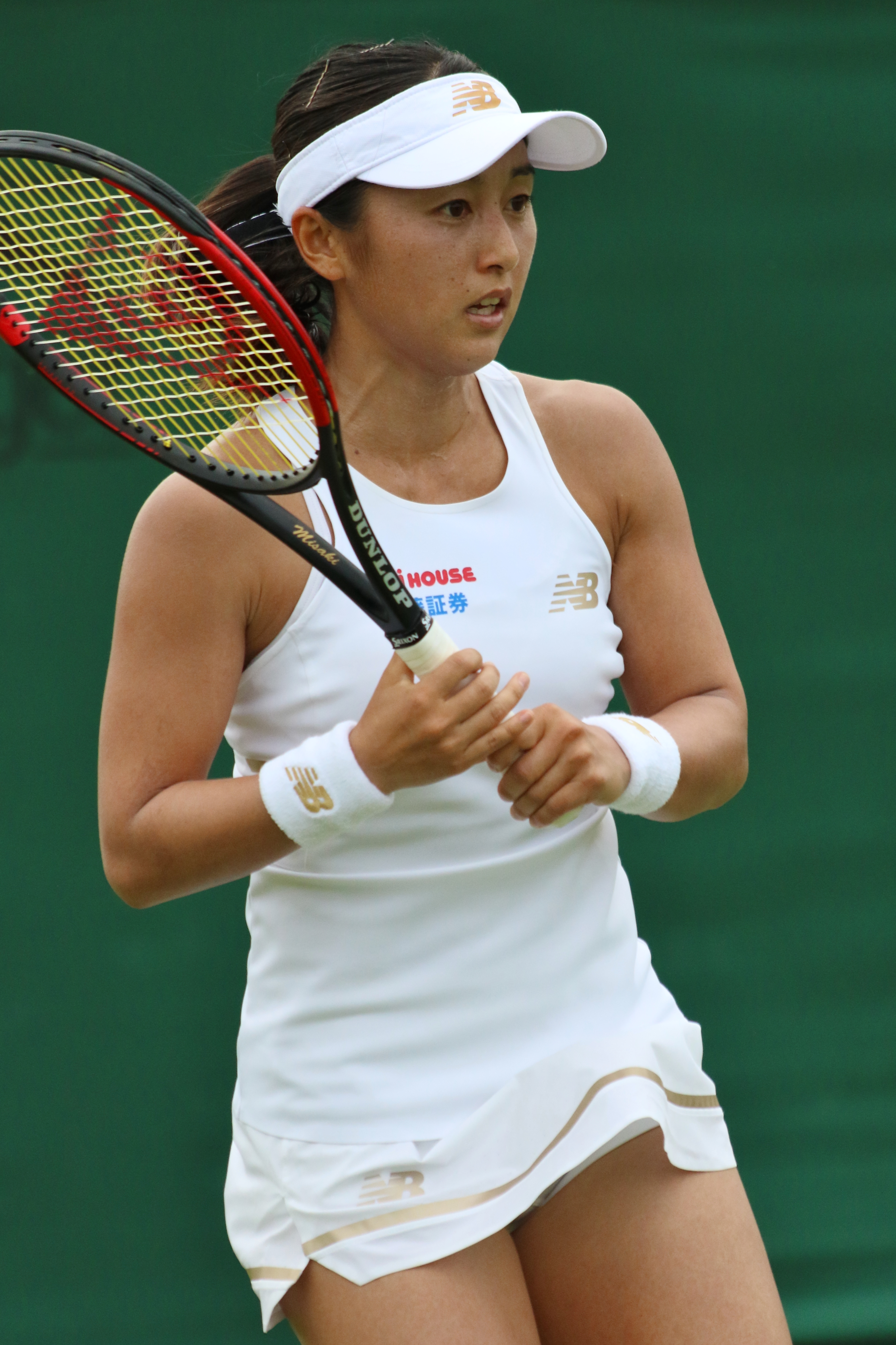 2019 Wimbledon Qualifying Tournament.